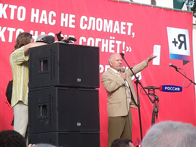 Депутат Грешневиков выступает на митинге в поддержку Урлашова. Ярославль. 16 июля 2013 года.